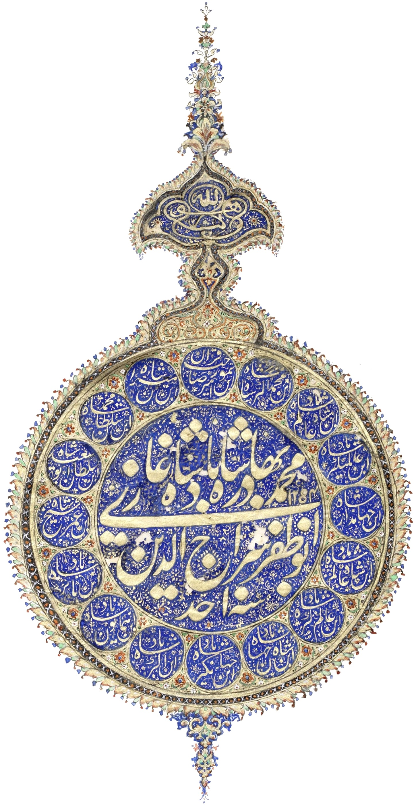 Signet of the King of Delhee Aboo Zufr Siraj ood Deen Mohumud Bahadoor Shah Badshah Ghazee. 1st Year of his Reign [with his descendants listed]. A series of 31 paintings by Ghulam Ali Khan (fl. 1817-55), consisting of views of monuments in and around Delhi, and including four portraits of the last Mughal Emperor Bahadur Shah II (reg. 1837-58) and his sons. Watercolour and gold on paper, black margin rules, three title pages, three sheets of portraits, all with identifying inscriptions in English and in Persian in nasta'liq script in black ink, the portraits with further inscriptions in nasta'liq script with the date November 1852 (Christian date written in Arabic), in later mounts, loose in contemporary green leather-covered despatch box, the lid embossed in gold DELHEE 1854. Size paintings 290 x 215 mm. and slightly smaller; mounts 318 x 394 mm.; box 435 x 365 x 110 mm.